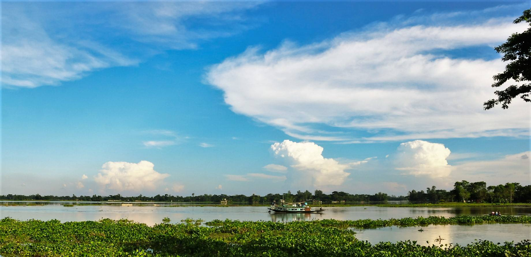 Beautiful Sunamganj